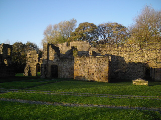 One of the surviving walls of St Paul's Monastery, Jarrow, Tyne and Wear